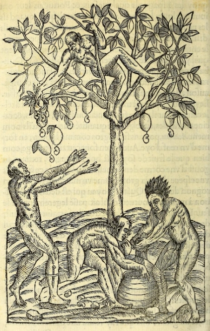 First picture of cashew tree by André Thevet in 1558.